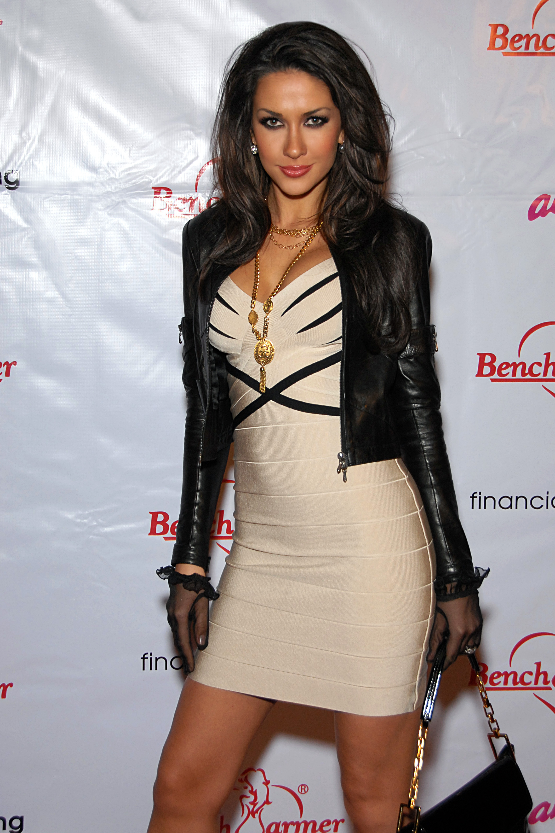 Larysa Poznyak attending the Benchwarmer Holiday Party at "The Kress" Hollywood, CA on 12/09/2008 - Photo by Glenn Francis of